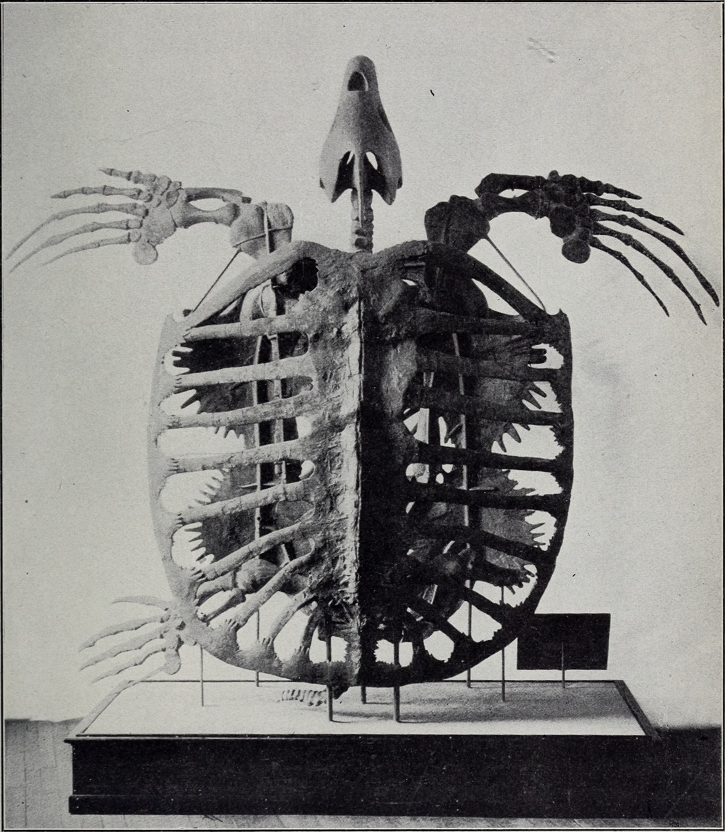 Title: The American journal of science Year: 1880 (1880s) Authors: Subjects: Science Publisher: New Haven : J. D. & E. S. Dana Text Appearing Before Image: Am. Jour. Sci., Vol. XXVII, 1909. Plate II. Text Appearing After Image: Archelon ischyros Wieland.—Photograph of dorsal view of the type as mounted in the Yale University Museum. (Compare with text figure 7.—The right flipper was bitten away just above the heel early in life by some predaceous enemy, either a shark, a fish or a mosasaur.)